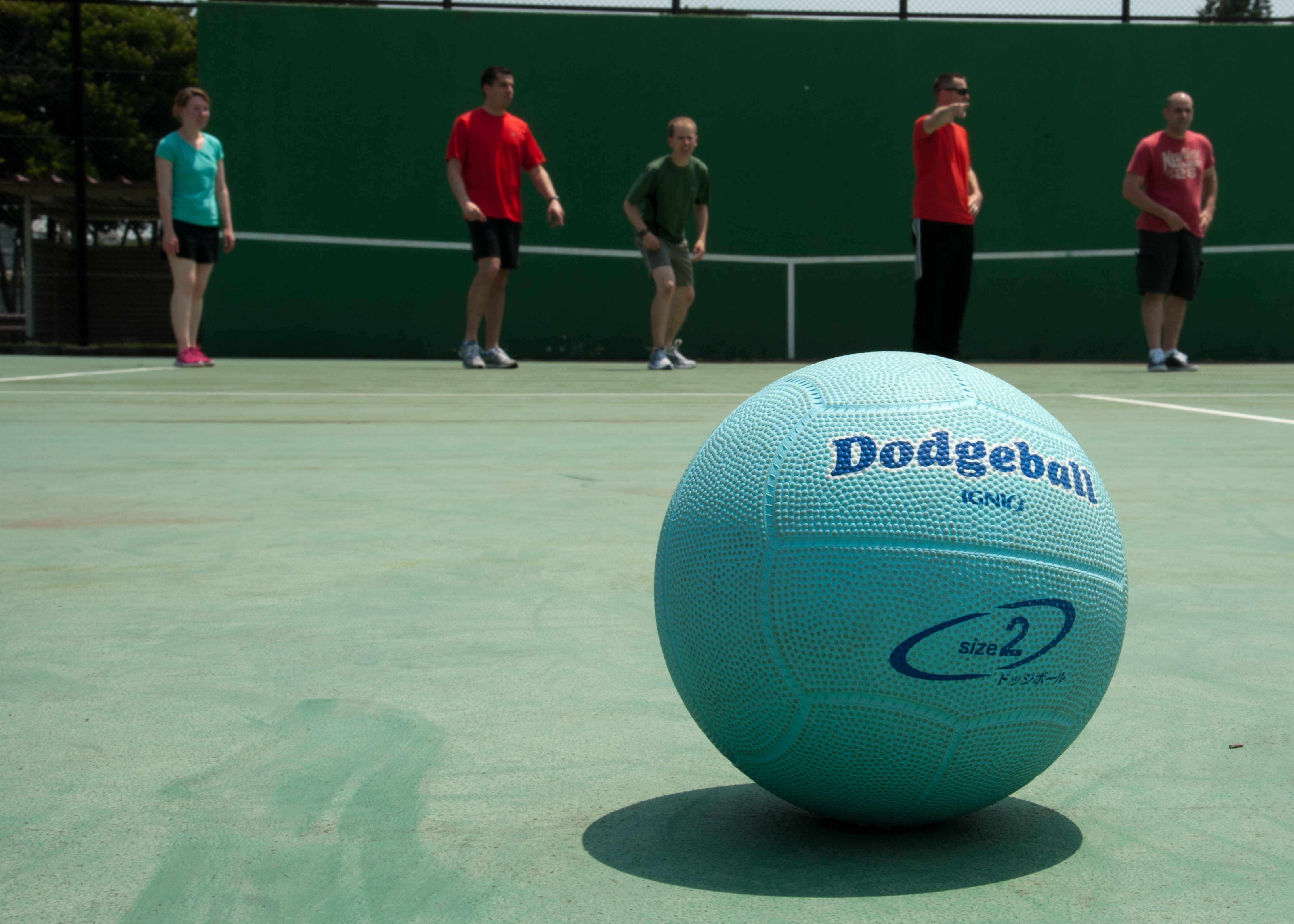 YOKOTA AIR BASE, Japan – A dodge ball sits on the ground before a match starts at Yokota Air Base, Japan, May 23, 2013. Dodge ball was one of many activities available for Airmen to participate during second annual Airman Appreciation Day.